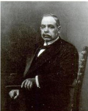 Portrait stored in the Law Faculty of the Universidad Complutense, Madrid.